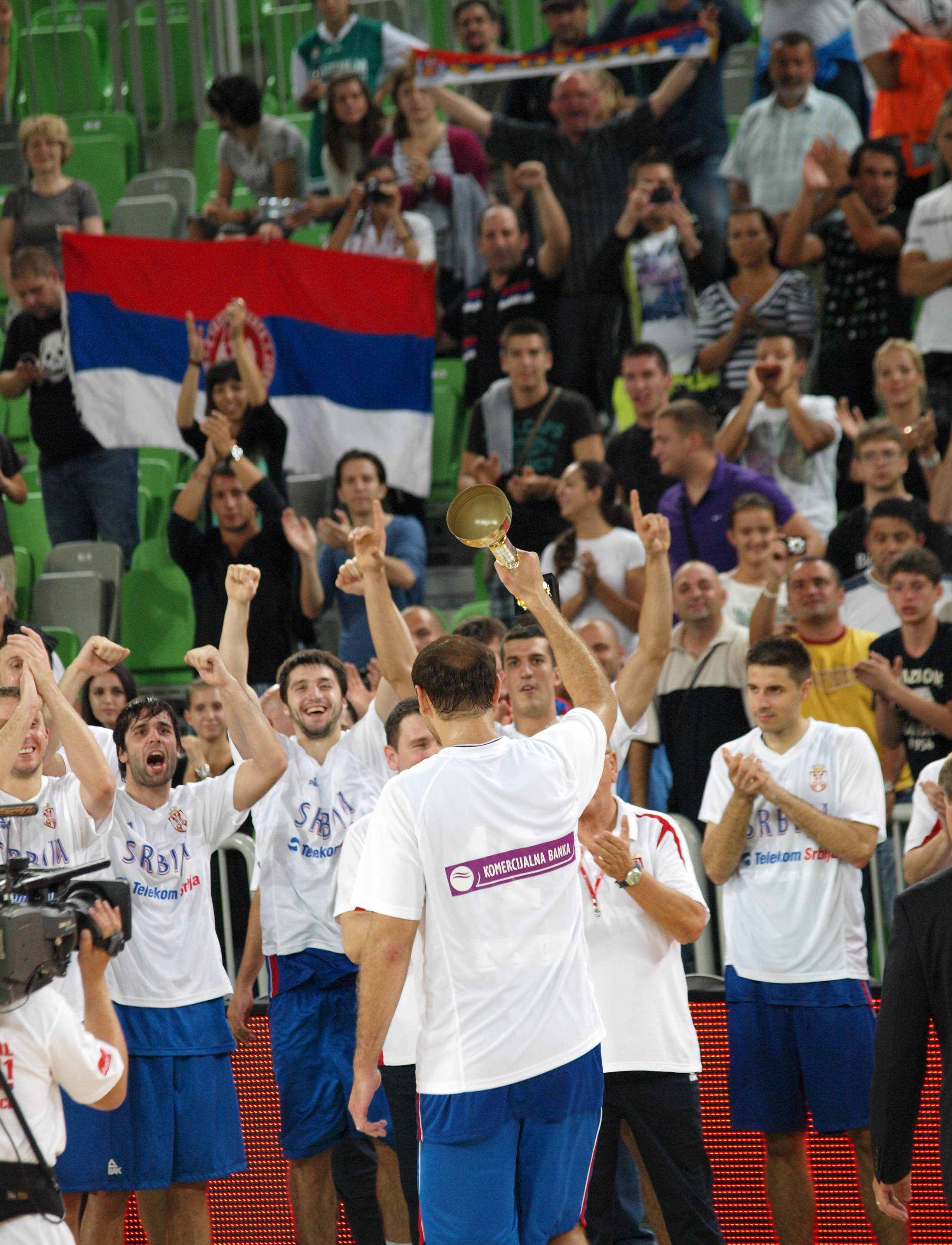 Serbian national basket team celebrating victory over Croatia on Adecco tournament 2011.